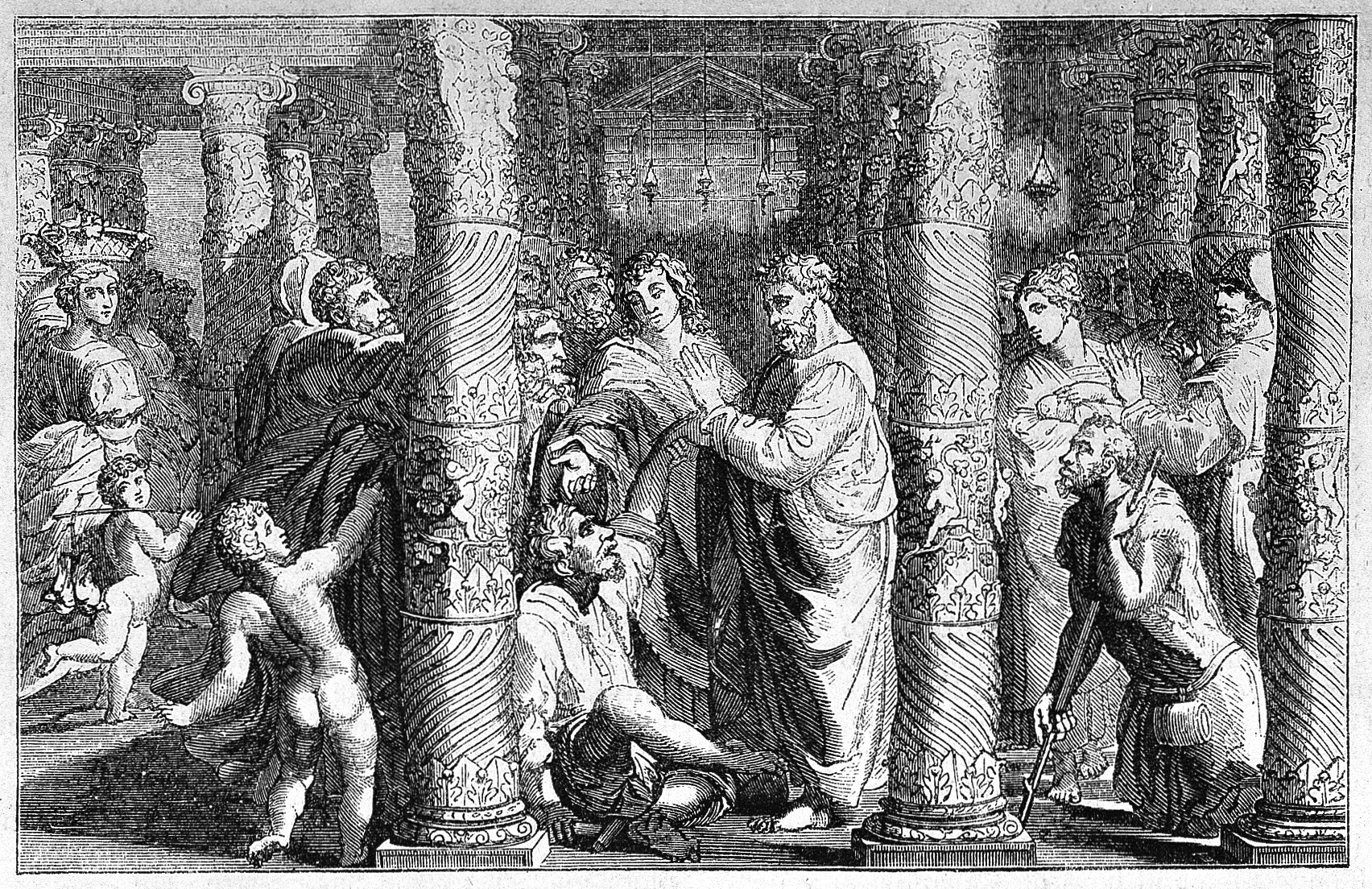 St Peter and St John healing the cripple. From a cartoon by Raphael at Hampton Court General Collections Keywords: miracles; orthopaedics; Medicine; Faith Healing; Raphael